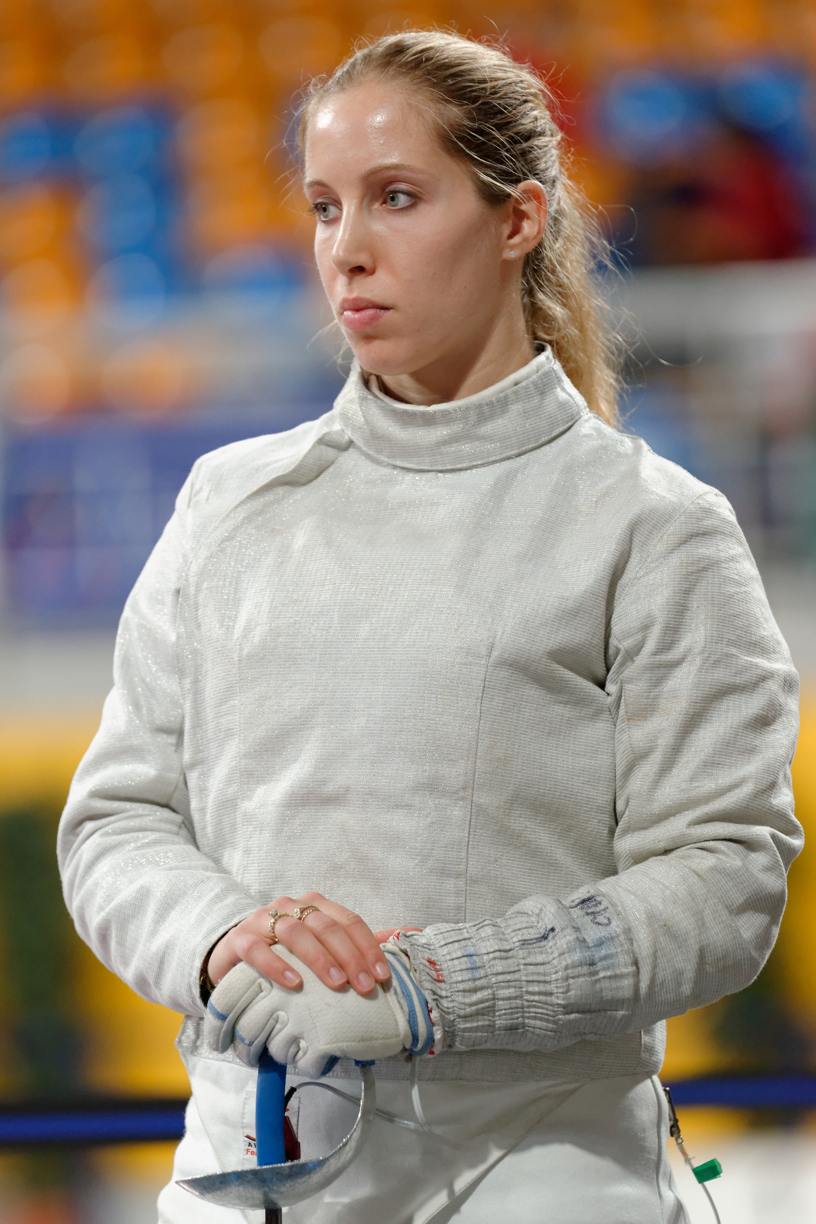 Mariel Zagunis of the United States in the team event of the 2014–15 Orléans World Cup in women's sabre.